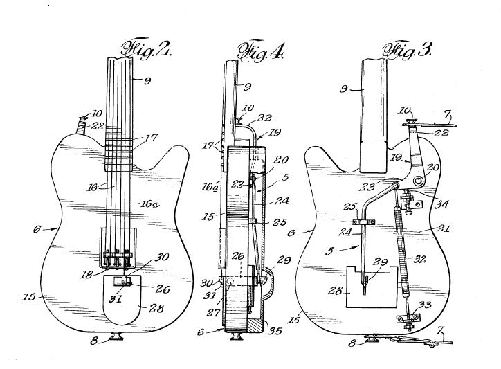 Patent drawing for Parsons-White String Bender, figures 2, 3 and 4, patent 3,512,443, title Shoulder Strap Control for String Instruments.